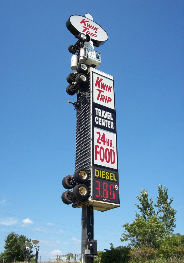 Kwik Trip sign visible from Interstate 90/94, near Exit 69, near Mauston, Wisconsin